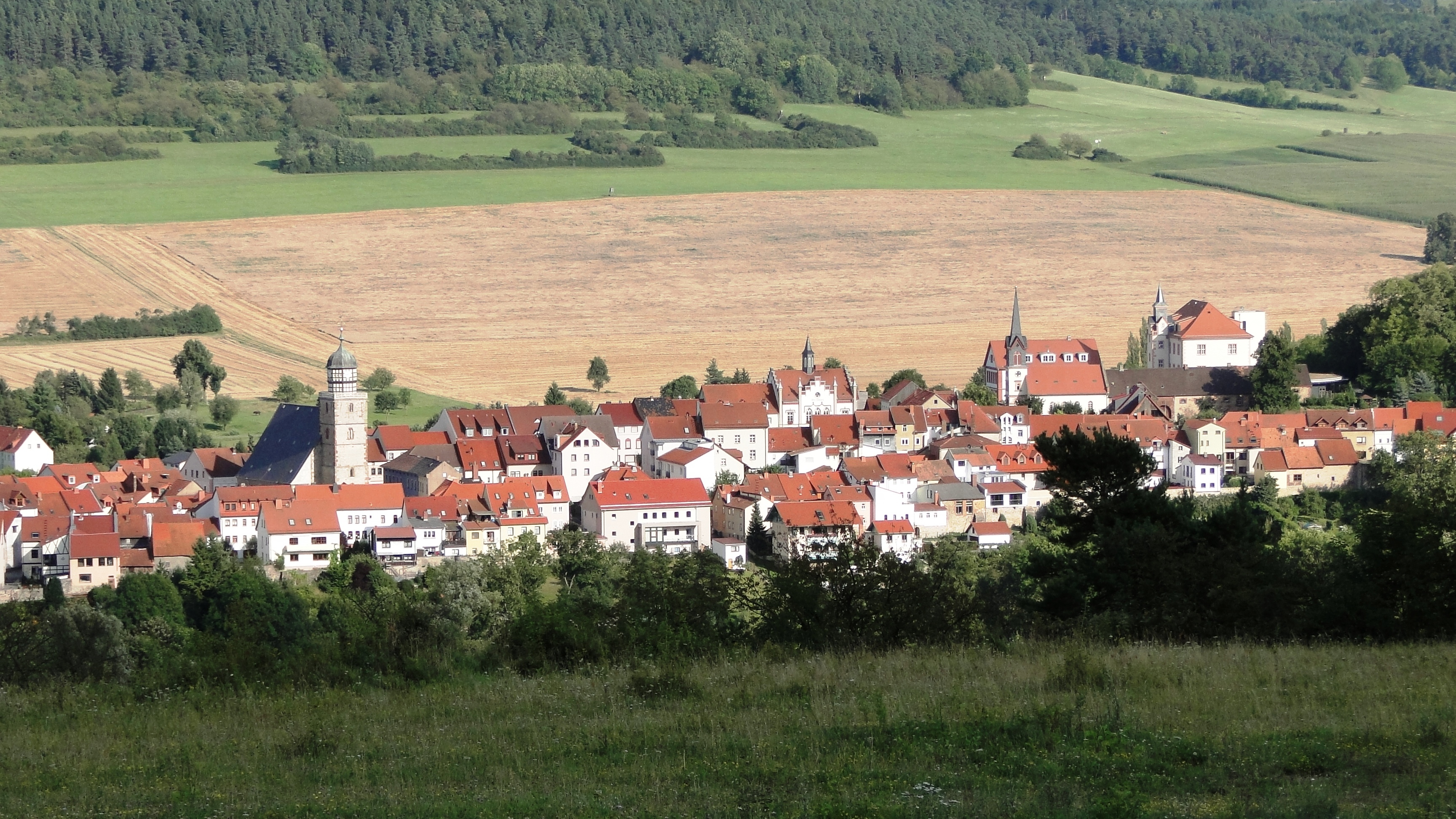 Geisa, Germany, seen from the B84